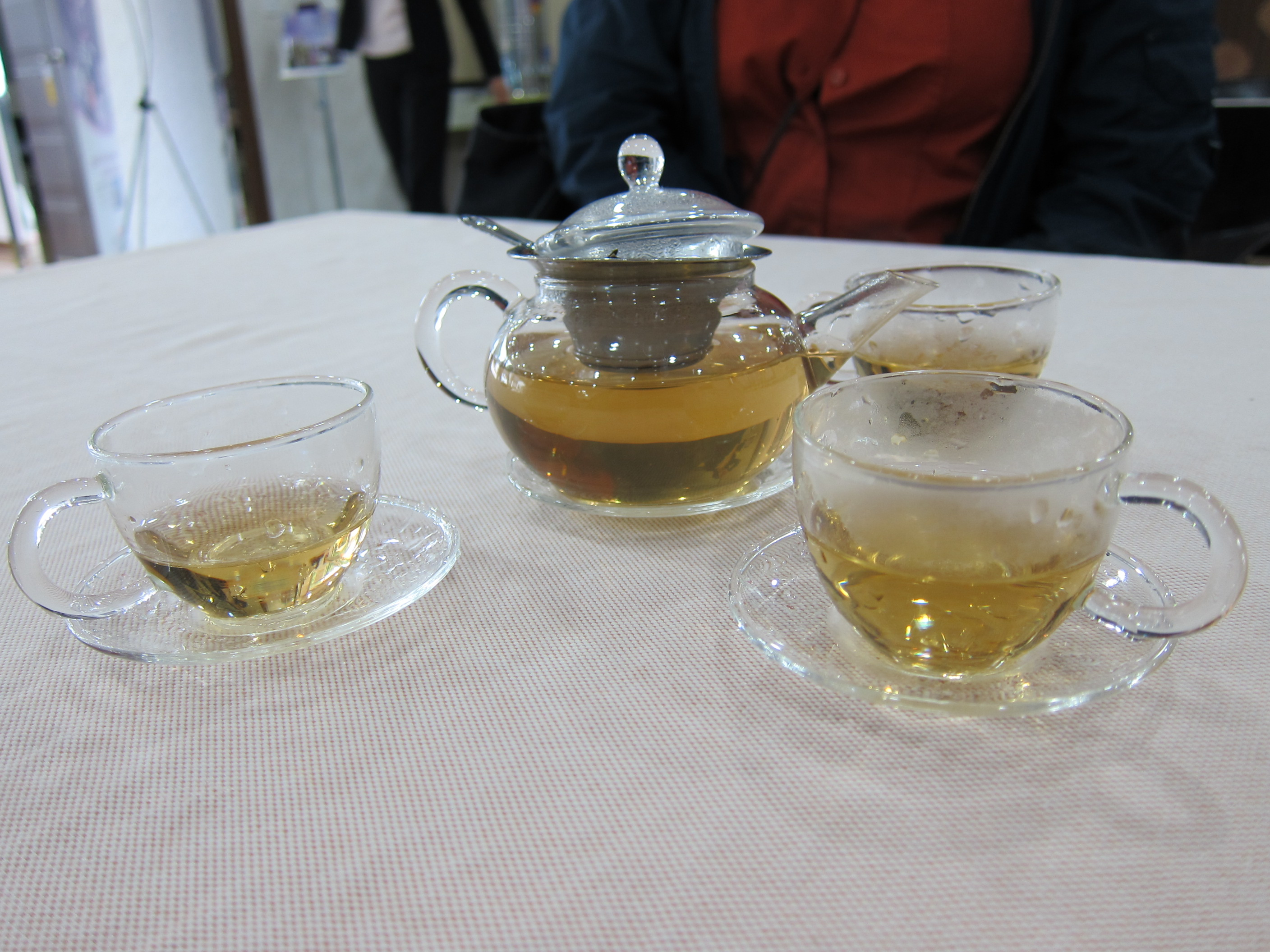 Ulleungdo thyme (Thymus japonicus) tea